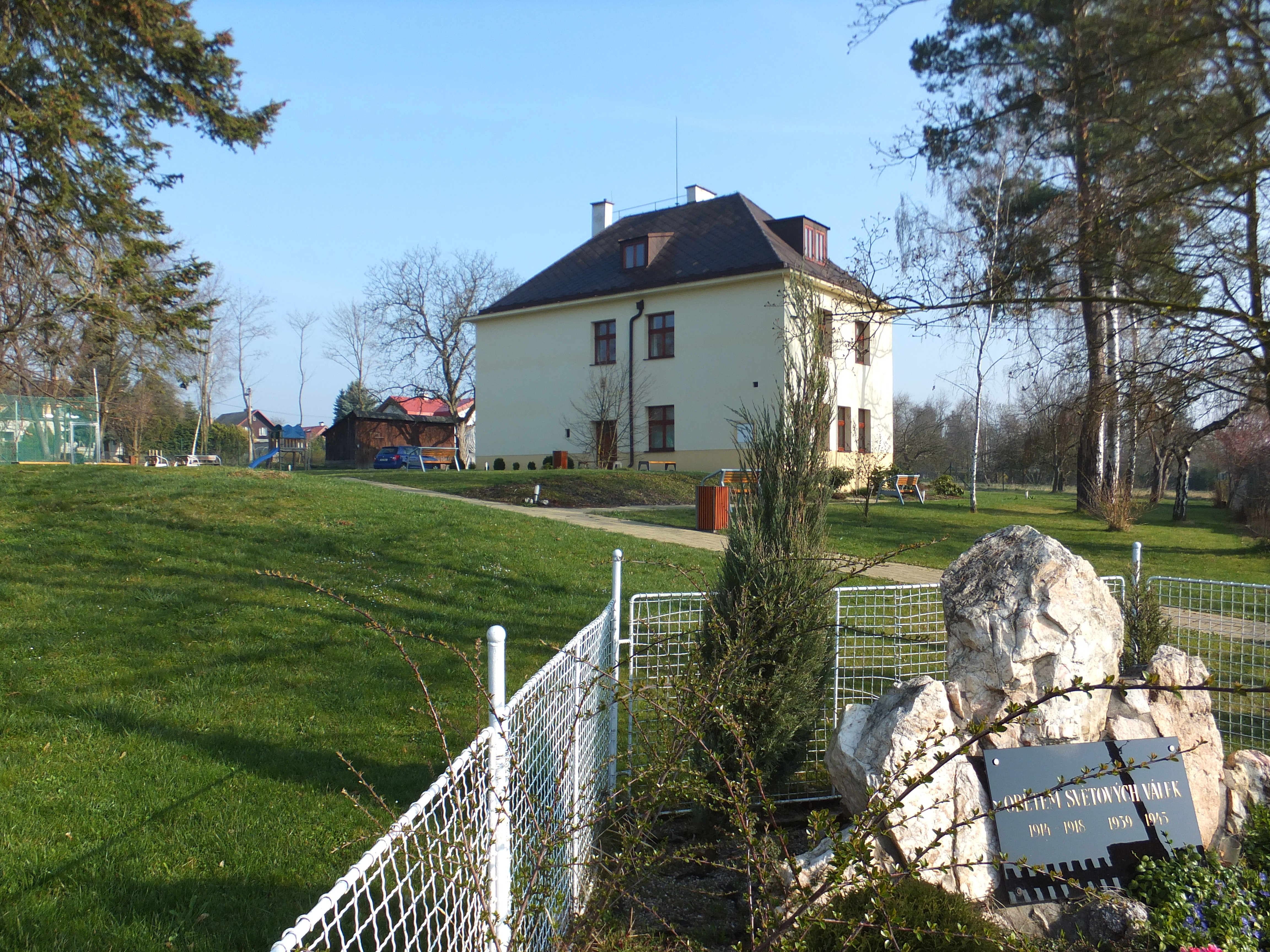 The Jan Hus House - the parsonage with the prayer room of the Evangelical Church of Czech Brethren in Hvozdnice